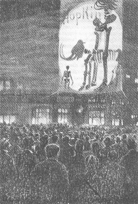 Ilustration by G. Roux to Jules Verne story